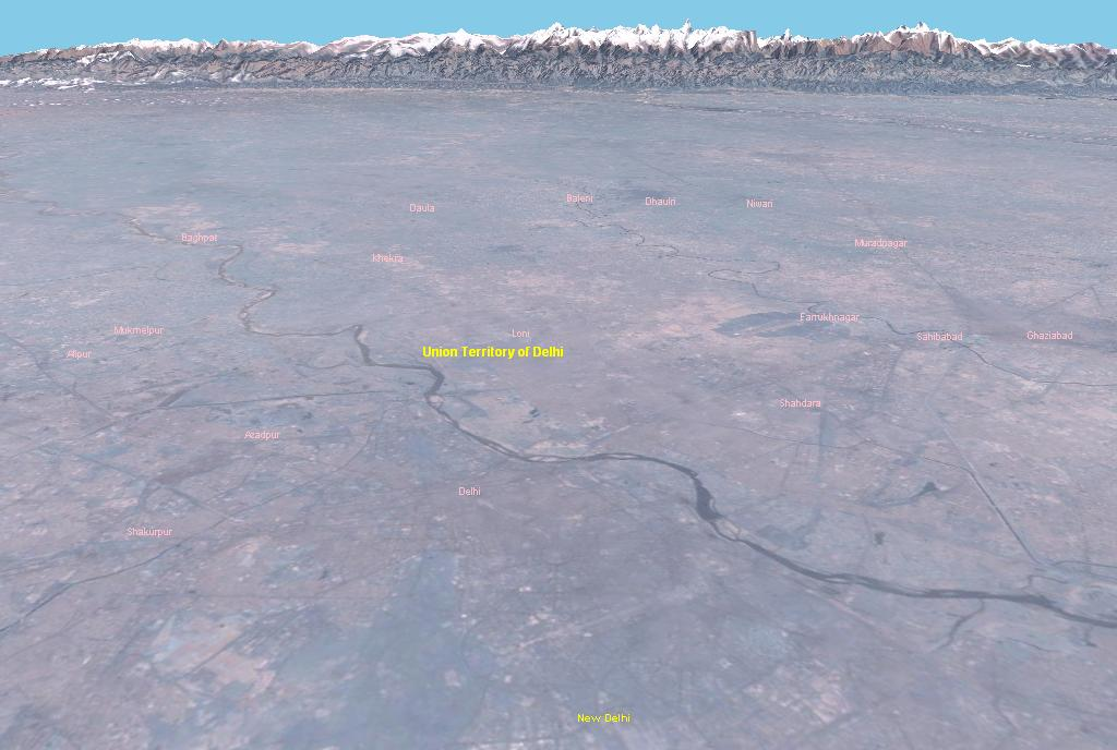 Screenshot from NASA World Wind